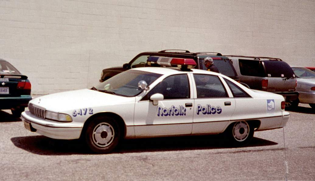 The (then) old-style livery on a vehicle which had been withdrawn from normal patrol duty.